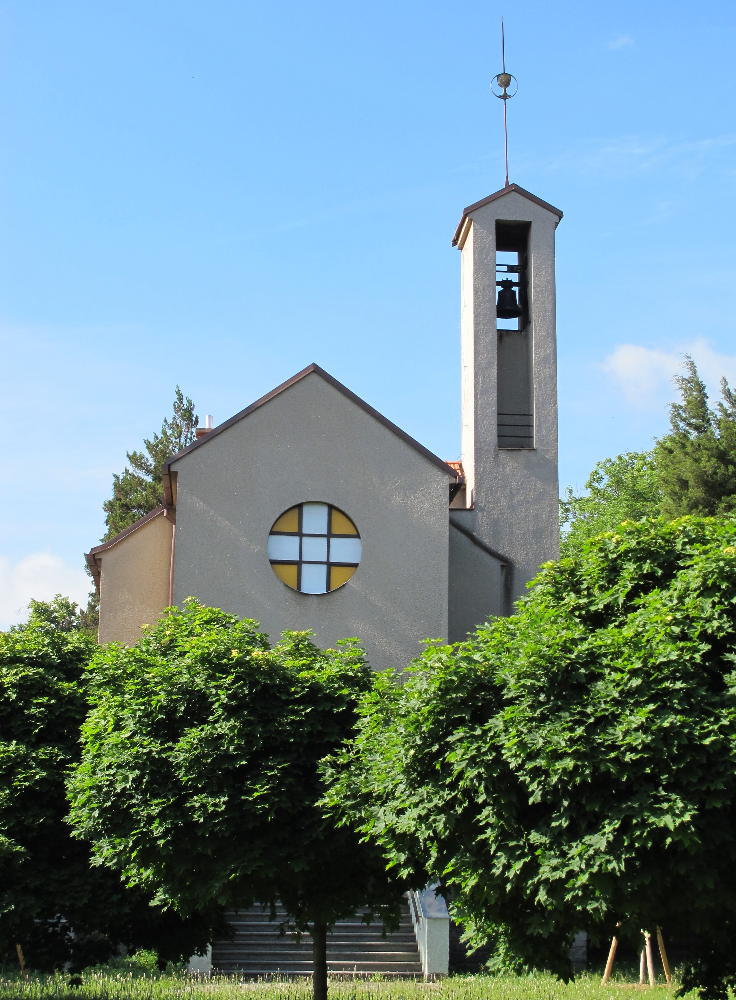 Evangelical church in Dobříš in Příbram District